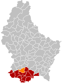 Own edit of Kanton Esch-sur-AlzetteLocatie.png